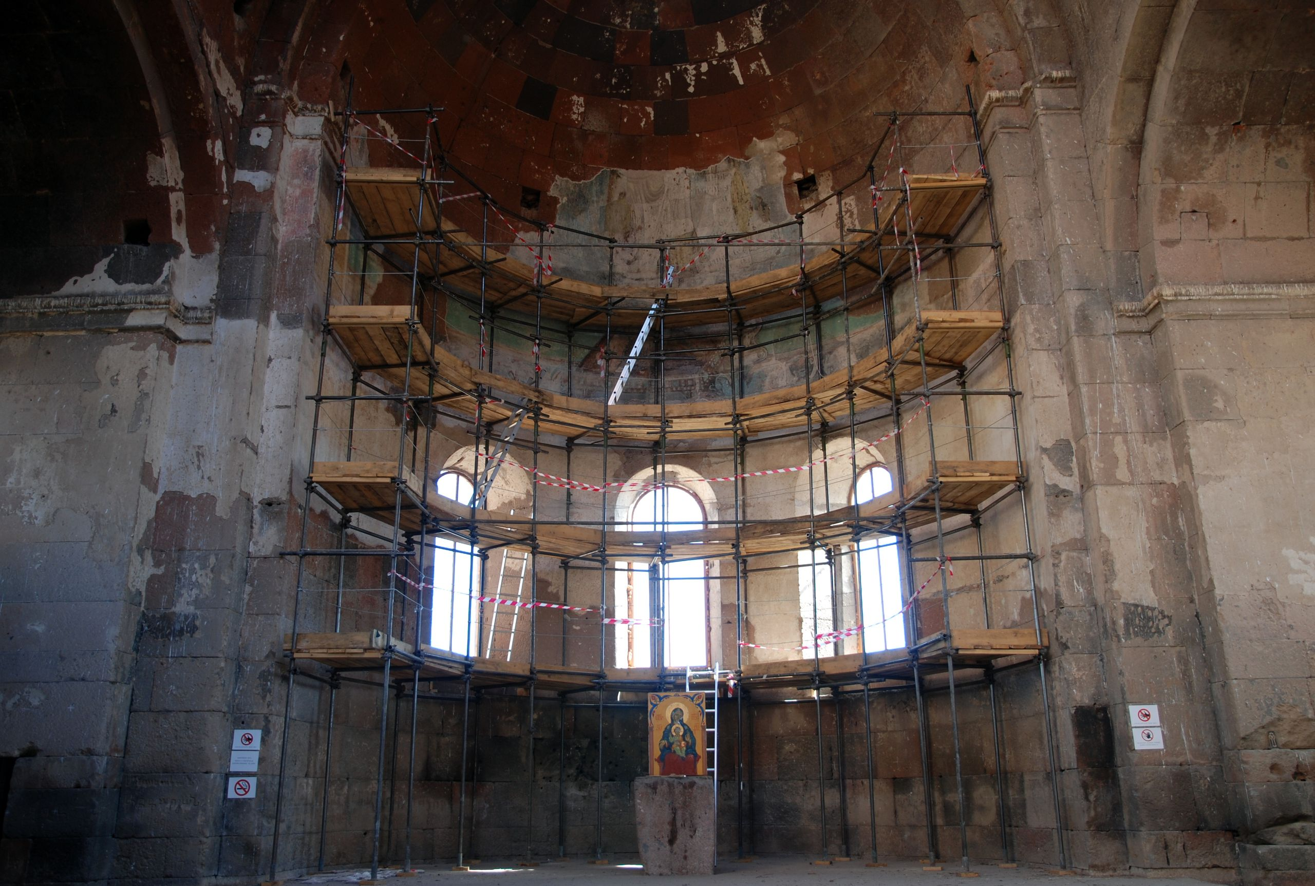 Aruch, cathedral, apse